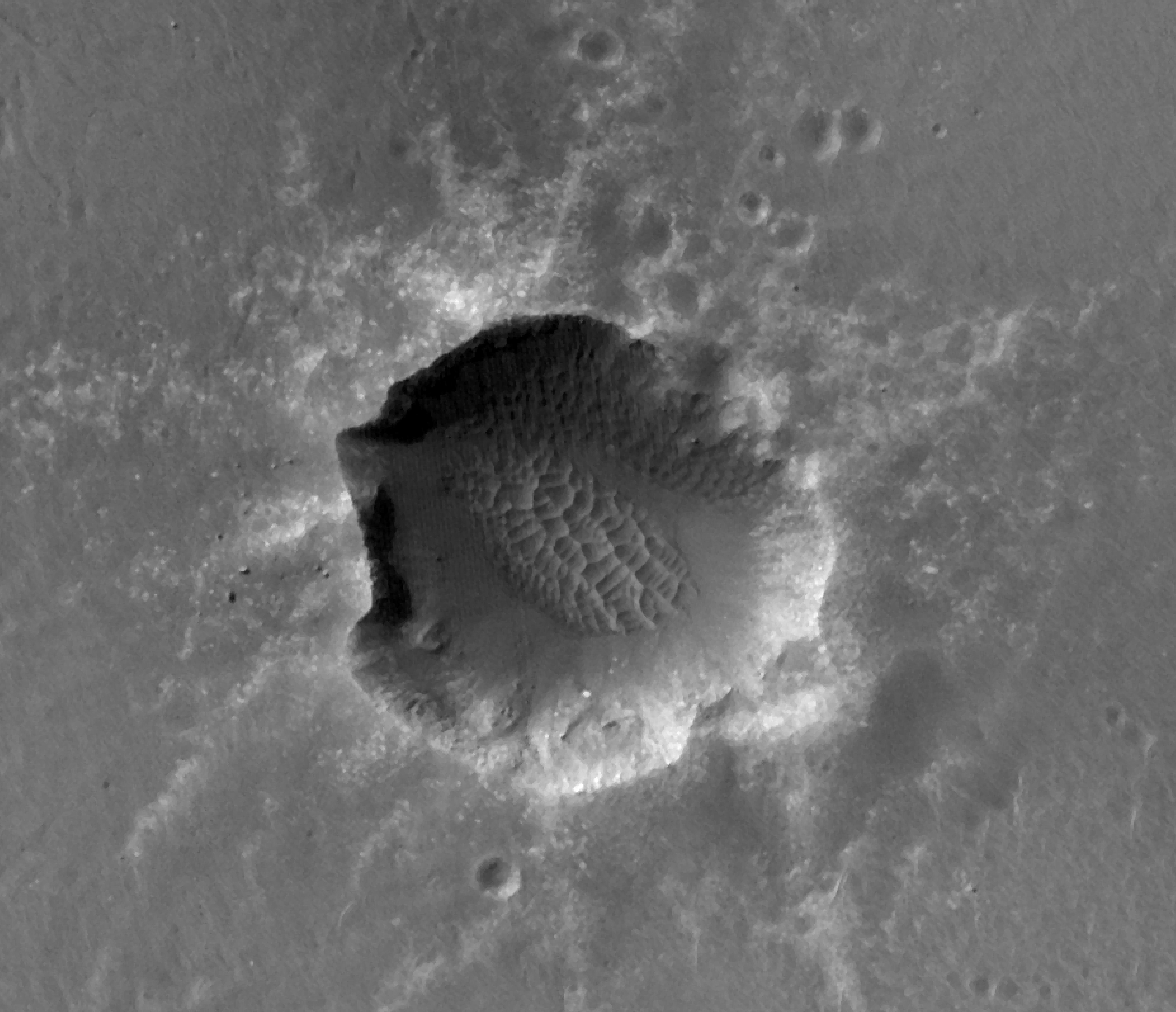 NASA's Mars Exploration Rover Opportunity approached Santa Maria Crater in December 2010. With a diameter of about 90 meters (295 feet), this crater is slightly smaller than Endurance Crater, which Opportunity explored for about half a year in 2004. This image of Santa Maria Crater was taken by the High Resolution Imaging Science Experiment (HiRISE) camera on Mars Reconnaissance Orbiter. The rover team plans to use Opportunity for investigating Santa Maria for a few weeks before resuming the rover's long-term trek toward Endeavour Crater. One planned target area is at Santa Maria's southeast rim. The red circle marked there on Figure 1 indicates the pixel size and location of an observation by the Compact Reconnaissance Imaging Spectrometer for Mars (CRISM) on NASA's Mars Reconnaissance Orbiter that has piqued researchers' interest. The spectrum recorded by CRISM for this spot, unlike the spectrum recorded for the place indicated by the blue circle on the floor of the crater, suggests what might be a water-bearing sulfate mineral. Although Opportunity has detected such minerals on the surface during its nearly seven years on Mars, none have been detected from orbit at a place visited by Opportunity.